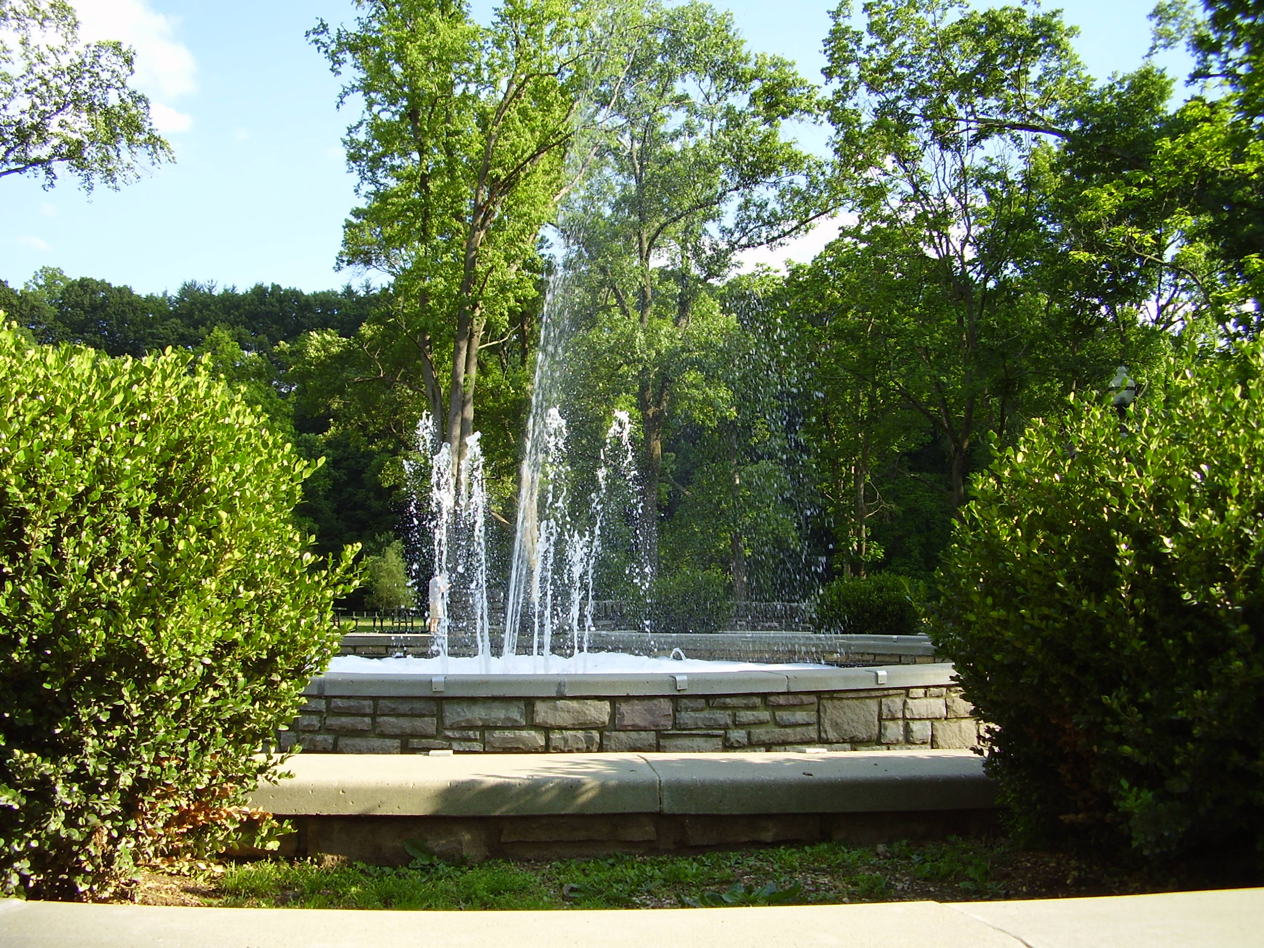 Self-made photo of the fountain at Ritter Park in Huntington, West Virginia. The photo was taken from the walking path on the south side of 13th Ave on June 12, 2006.